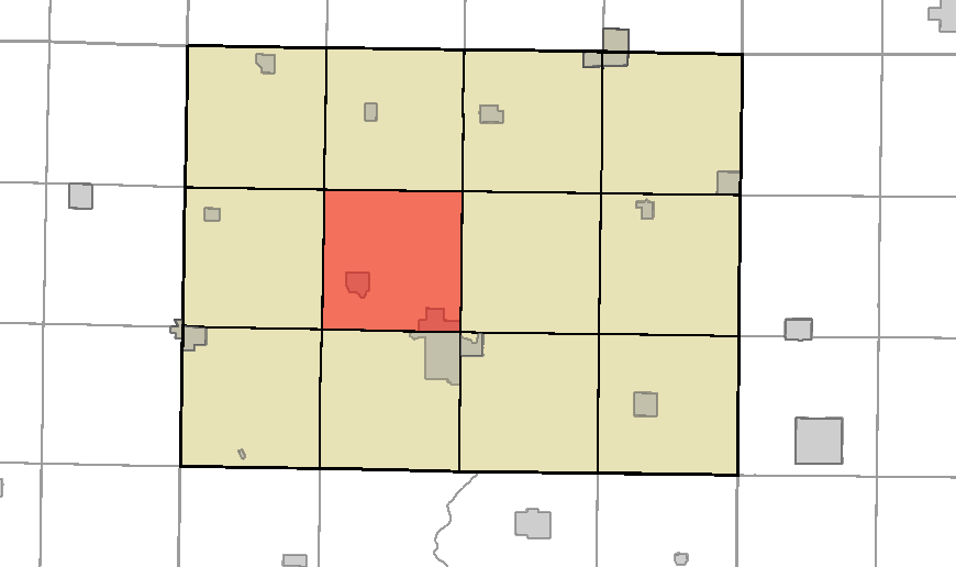 This is a map of Humboldt County, Iowa, USA which highlights the location of Rutland Township.